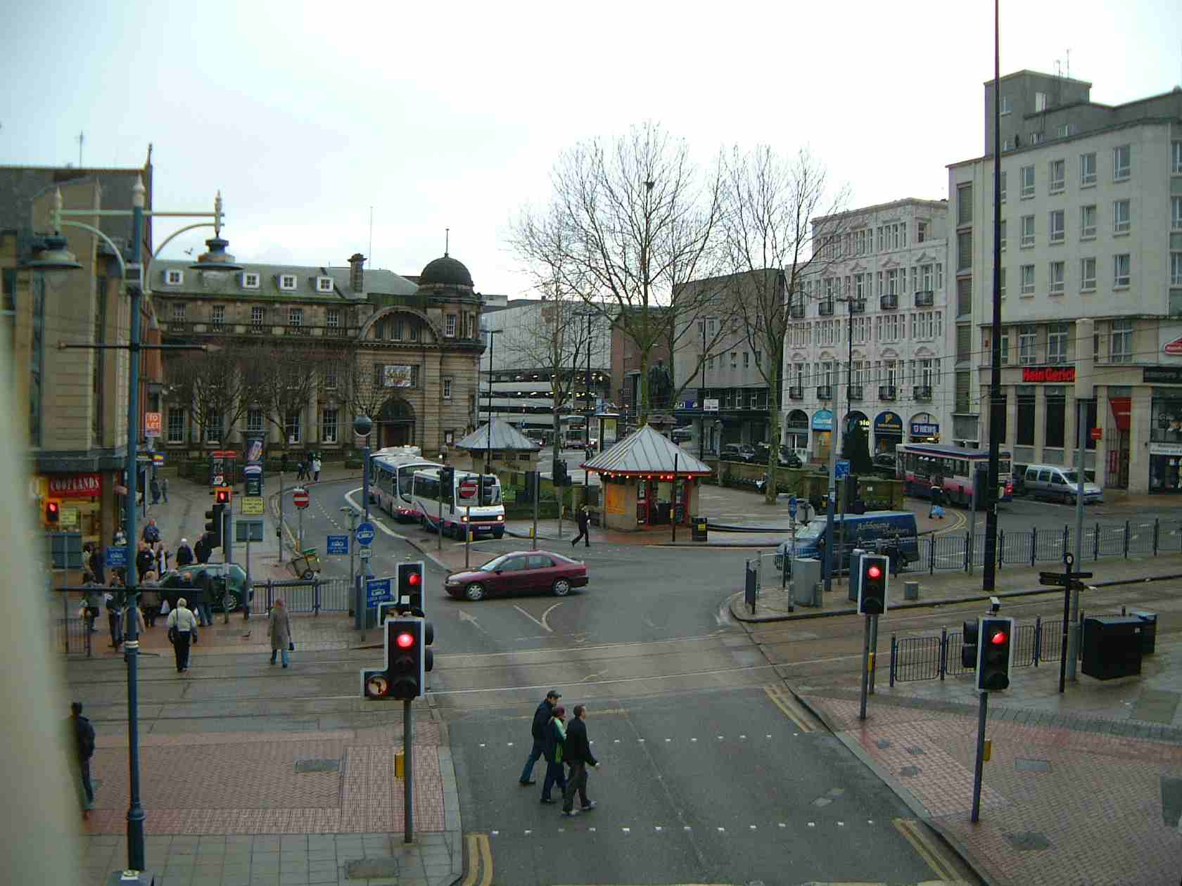 Personal photograph taken on January 18th 2006 by Mick Knapton